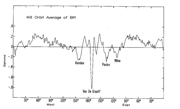 Forty-eight orbit average of the radial component Br of the lunar magnetic field. Plus values indicated fields directed radially outward.